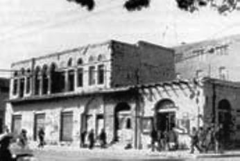 sheikh abu medin house in beer sheva